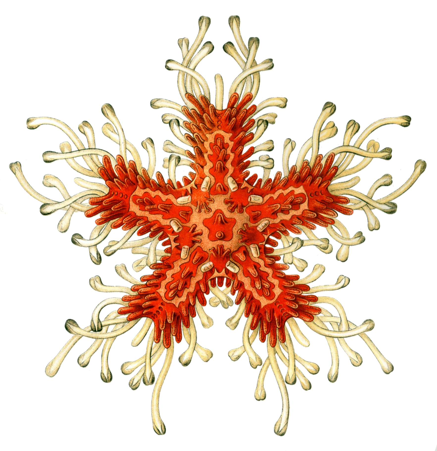 A cutout from a Haeckel plate, to replace a similar earlier version that was somehow lost without a deletion log.